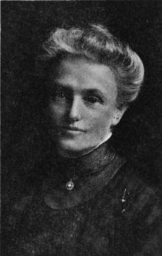 An older white woman, her white hair in an bouffant updo. She is wearing a high-collared black dress or blouse.